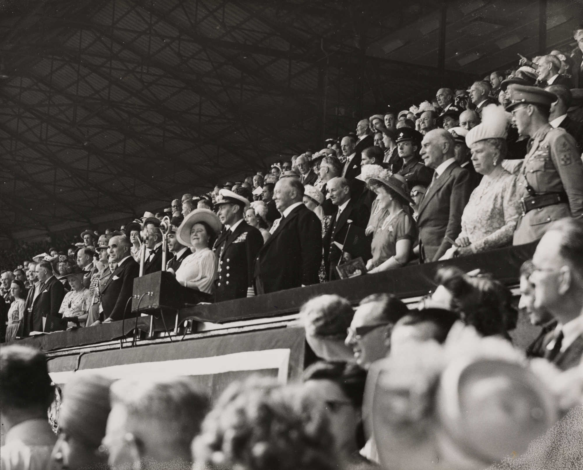 His Majesty King George VI opened the proceedings with a speech which was followed by the entry of the Olympic torch bearer. Photo shows the Royal party in box at Wembley Stadium, from left right to left, Prince Bernhard, Queen Mary, Earl of Athlone, Duchess of Gloucester, Mr Atlee, Mr Sigfrid Edstrom, The King, The Queen, Shah of Persia, Sir Frederick Wells, Princess Margaret, Duke of Gloucester and Lady Athlone. Daily Herald Archive at the National Media Museum